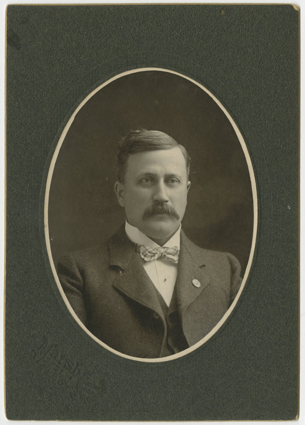 A portrait of Colorado State Senator Hubert Reynolds made around 1900.